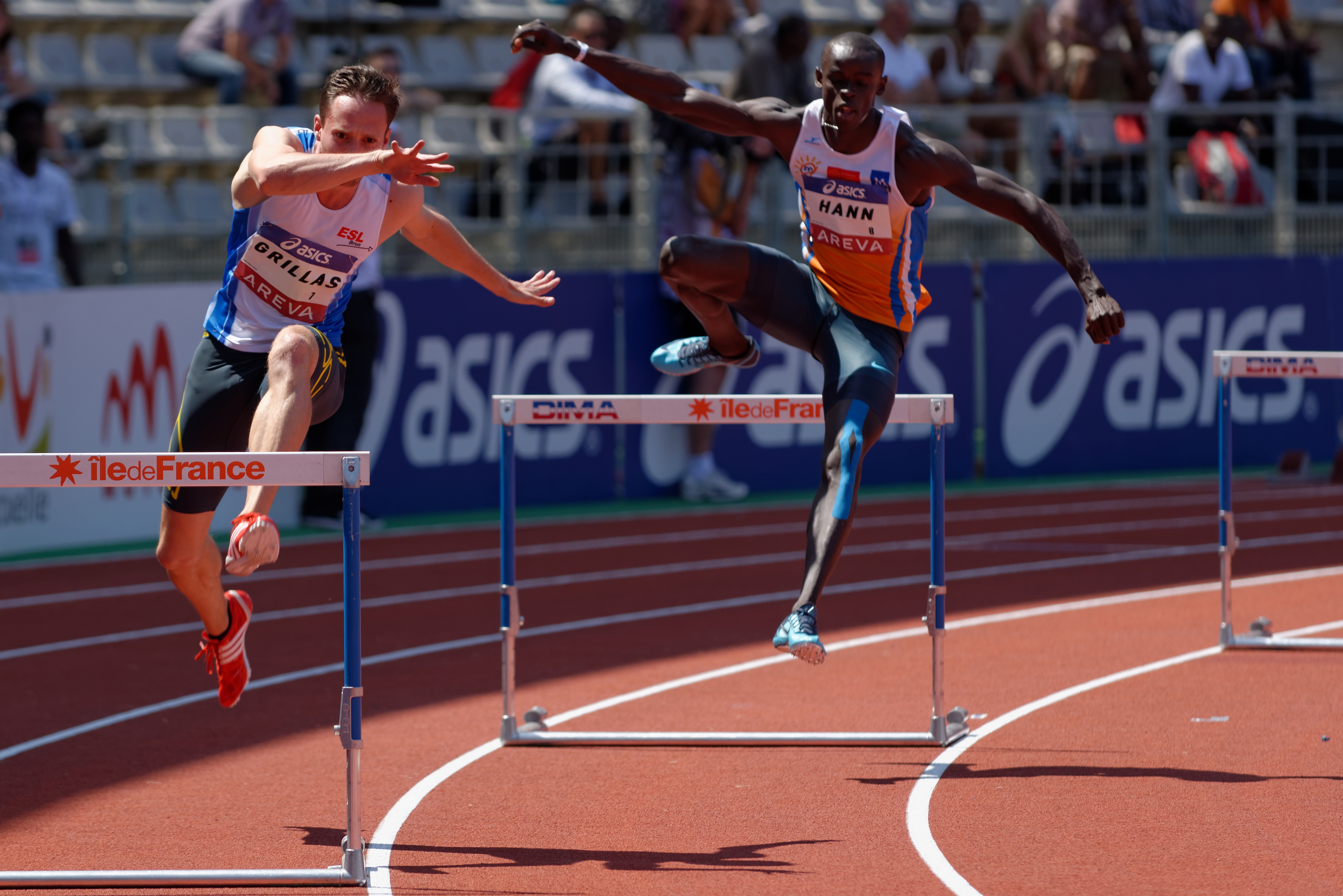 Hugo Grillas (L) and Mamadou Kassé Hanne (R) compete in the men's 400 m hurdles during the French Athletics Championships 2013 at Stade Charléty in Paris, 14 July 2013.